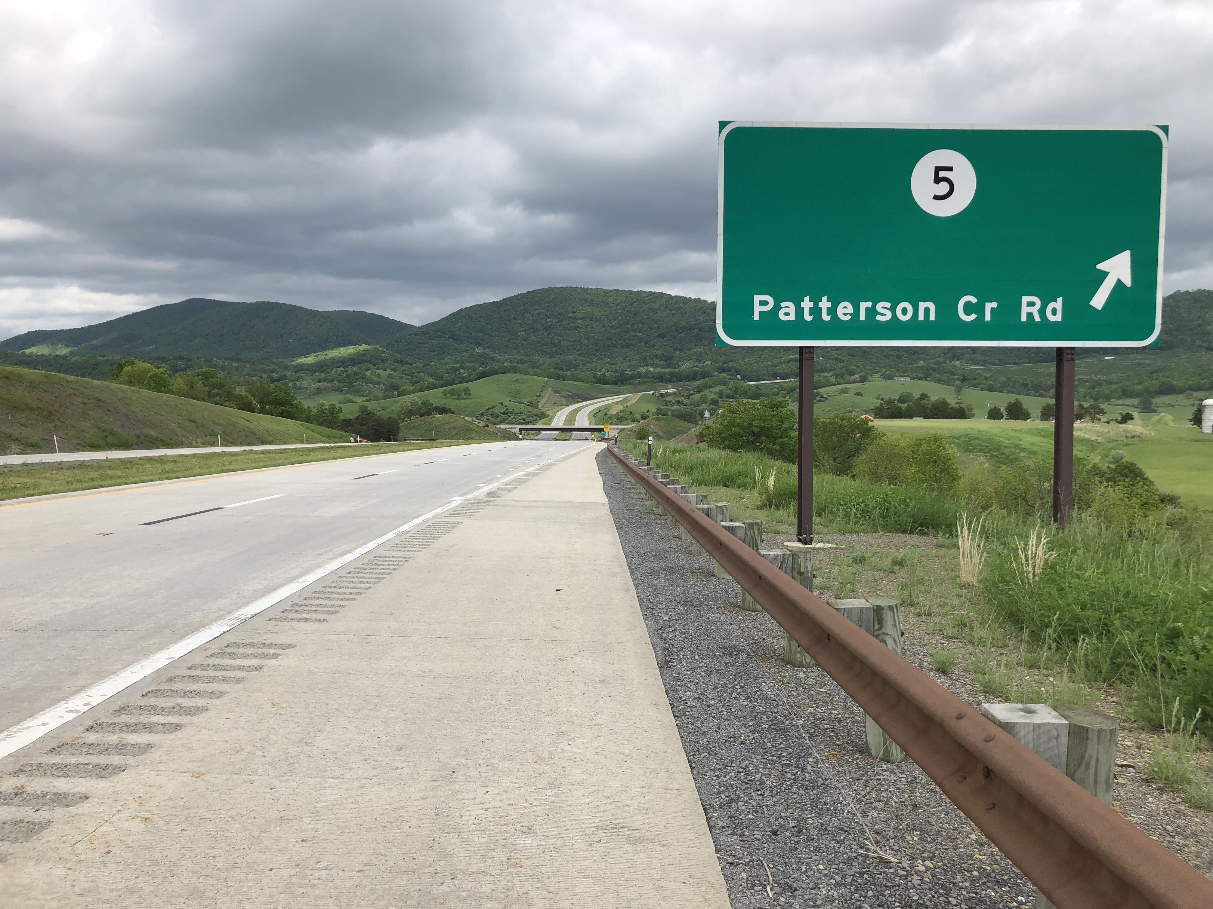 View east along U.S. Route 48 (Corridor H) at the exit for Grant County Route 5/Patterson Creek Road in Forman, Grant County, West Virginia